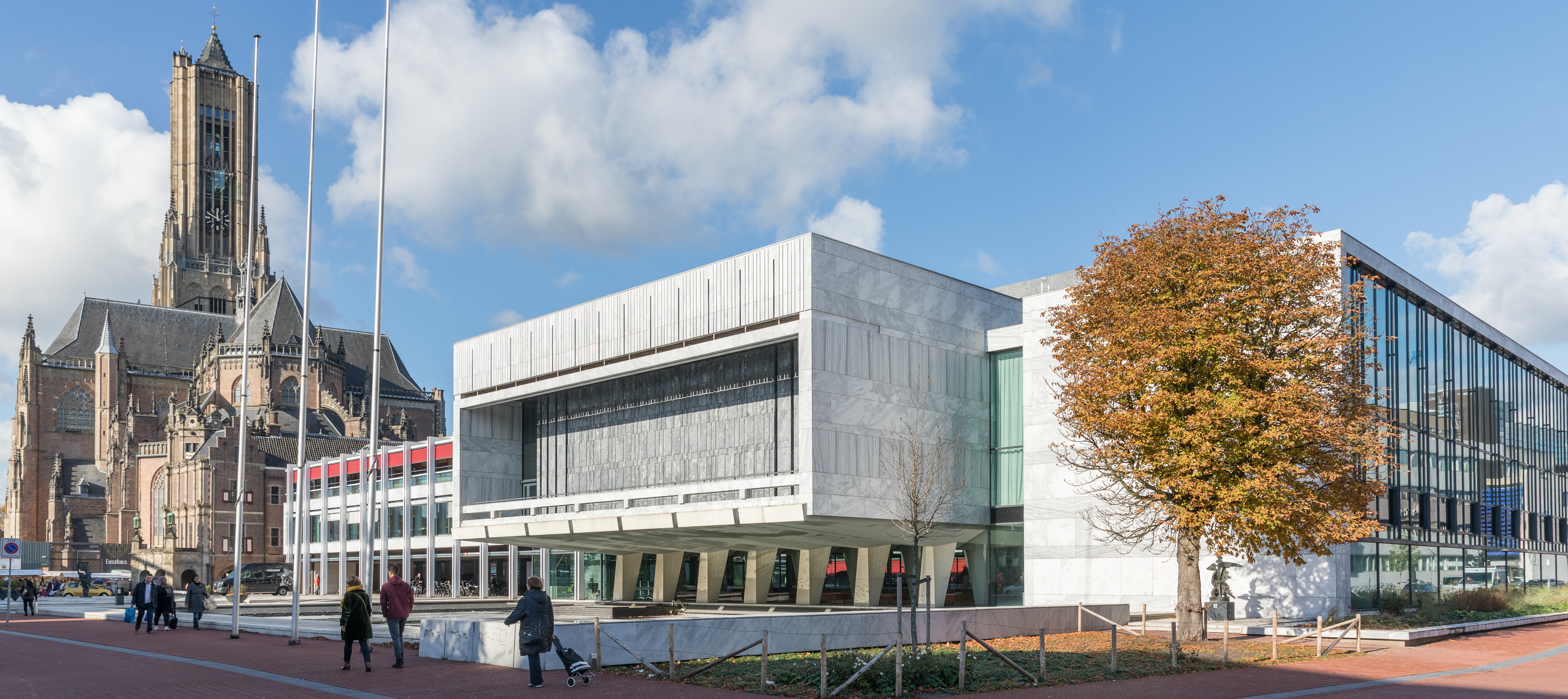 Rathaus von Arnheim, Niederlande